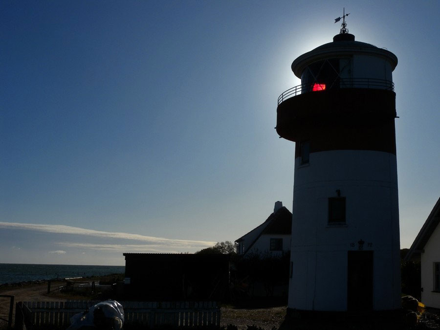 Hov Lighthouse. Located at the end of the Hov Fyrvej near the northeastern tip of island of Langeland. Denmark.